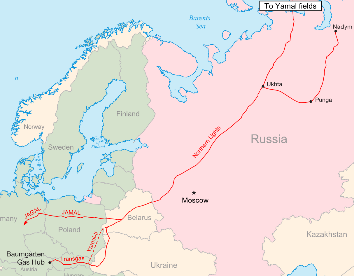 Map of the Northern Lights natural gas transportation pipeline.